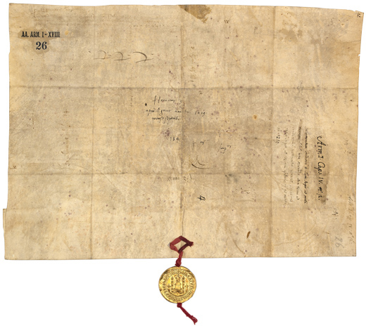 Frederick II, King of Sicily, swears an oath to Pope Honorius III, in which he undertakes to protect and preserve the possessions of the Roman Catholic Church, to defend the Reign of Sicily, and to confirm such engagements in the future, when crowned Holy Roman Emperor. Given in Haguenau, September 1219. Verso of a parchment with the gold seal of the Frederick II. The document is currently stored in the Vatican Secret Archives.